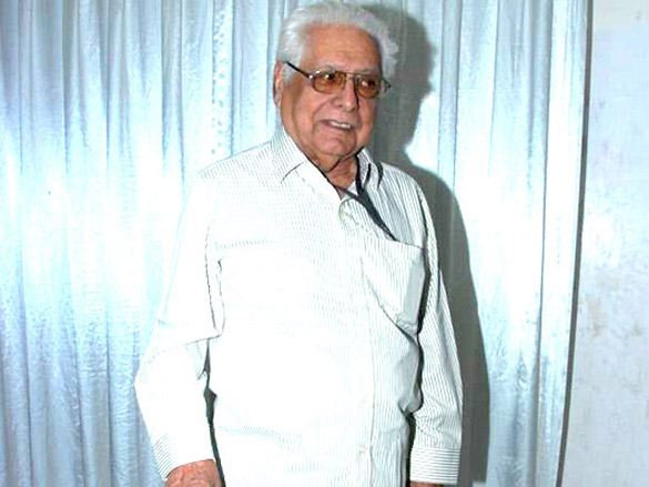 Basu Chatterjee image